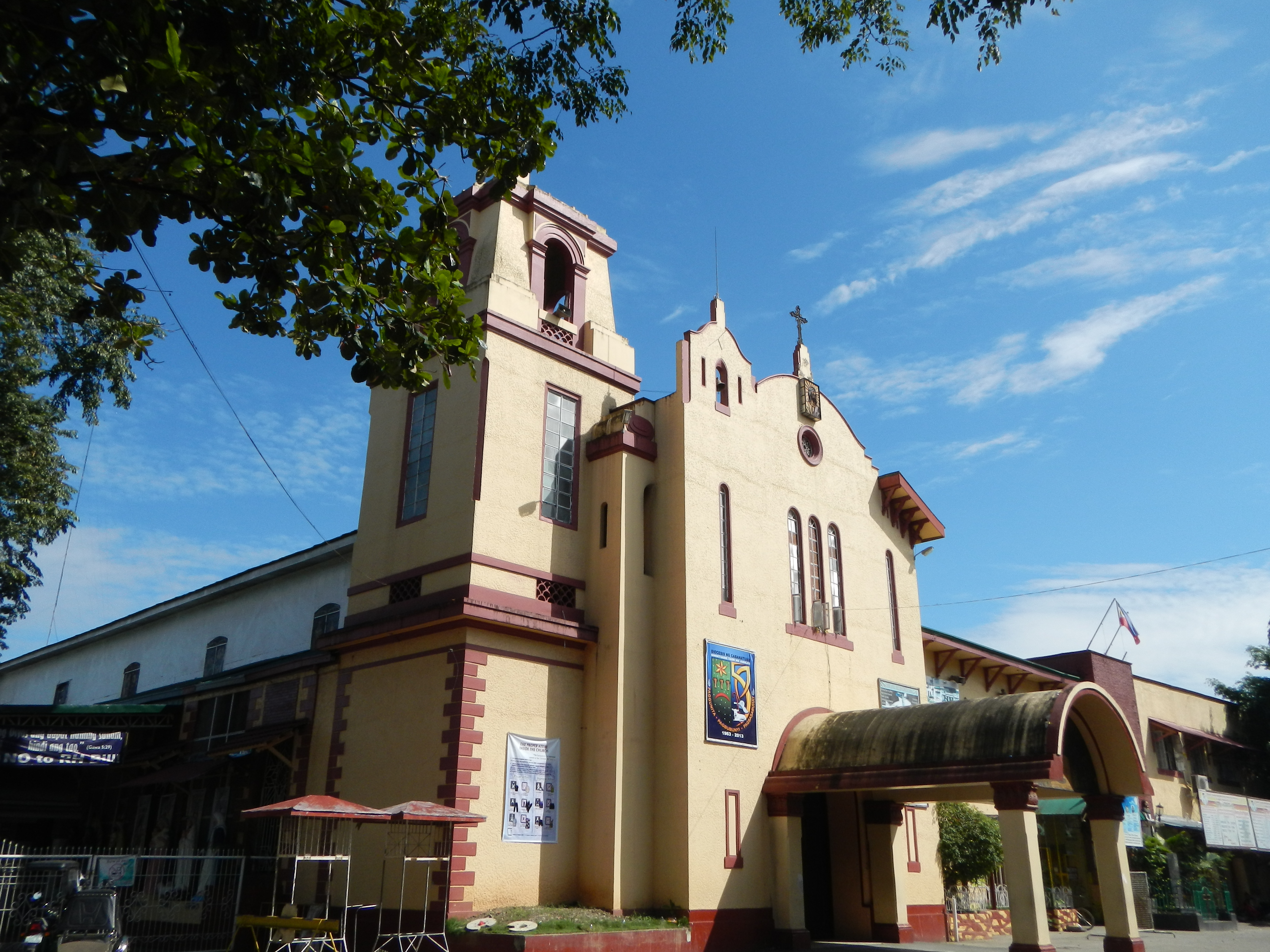 Saint John Nepomucene Church Cabiao, Nueva Ecija[1]